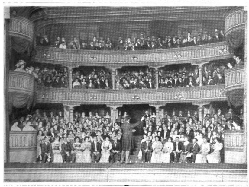 Scene from Act 2 of 1909 Broadway musical "The Midnight Suns" - A theatre scene faces the audience.